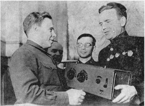 E. Krenkel (RAEM) presents award (KUB-4 receiver) to V. Saltykov (U1AD)